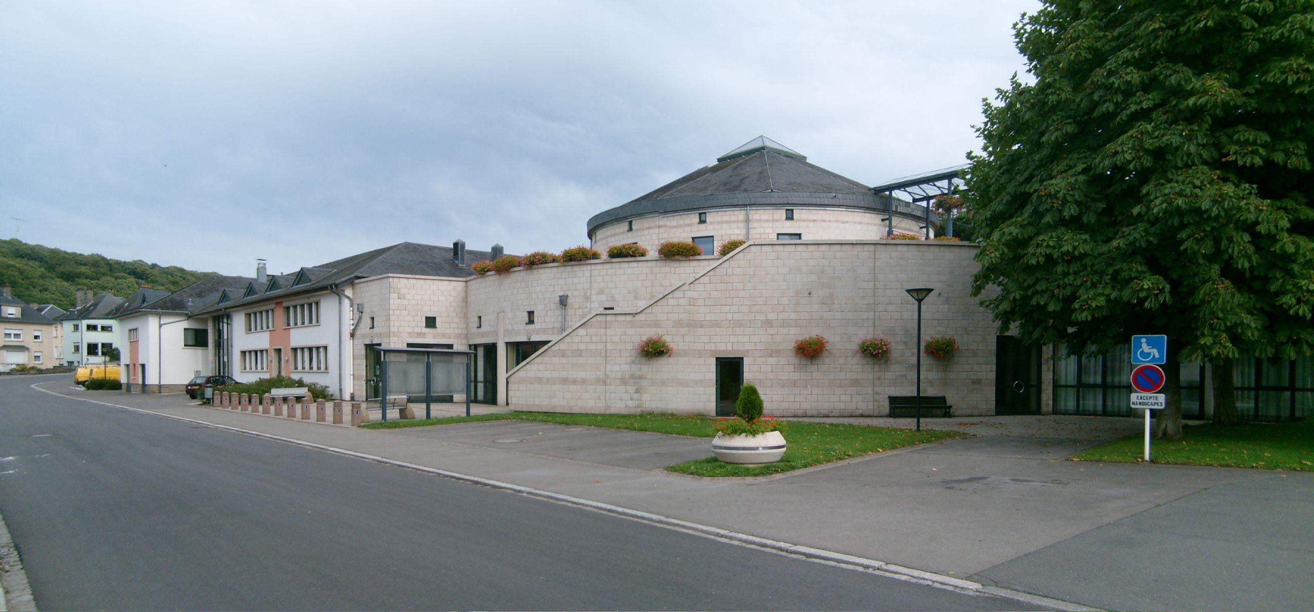 The town hall of the village of Colmar-Berg, Luxembourg.